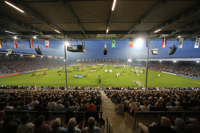 The amazing arena of the CHIO Aachen